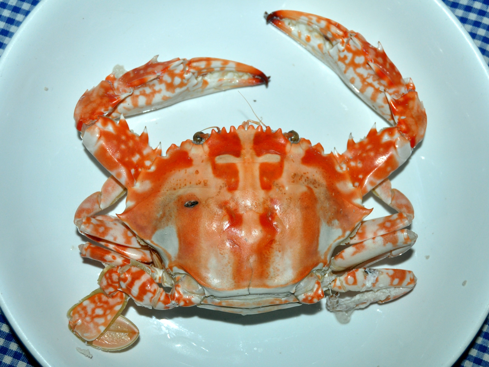 Charybdis feriata; female, 85mm carapace width, boiled. From traditional market in Bogor, West Java, Indonesia.